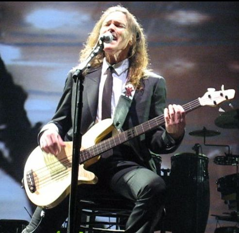 Timothy B. Schmit, Ahoy, Rotterdam